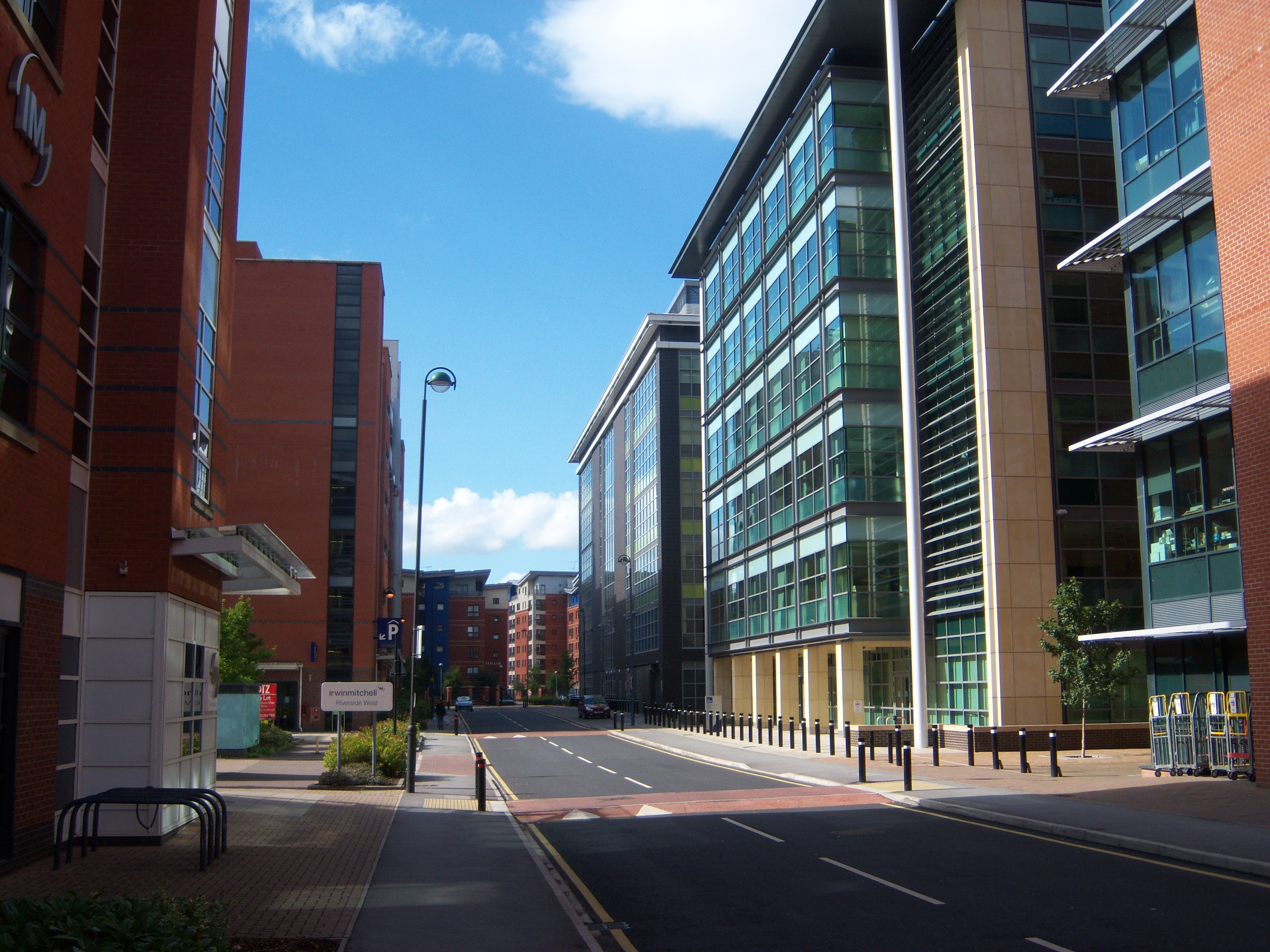 The new developments at Riverside Exchange in Sheffield city centre